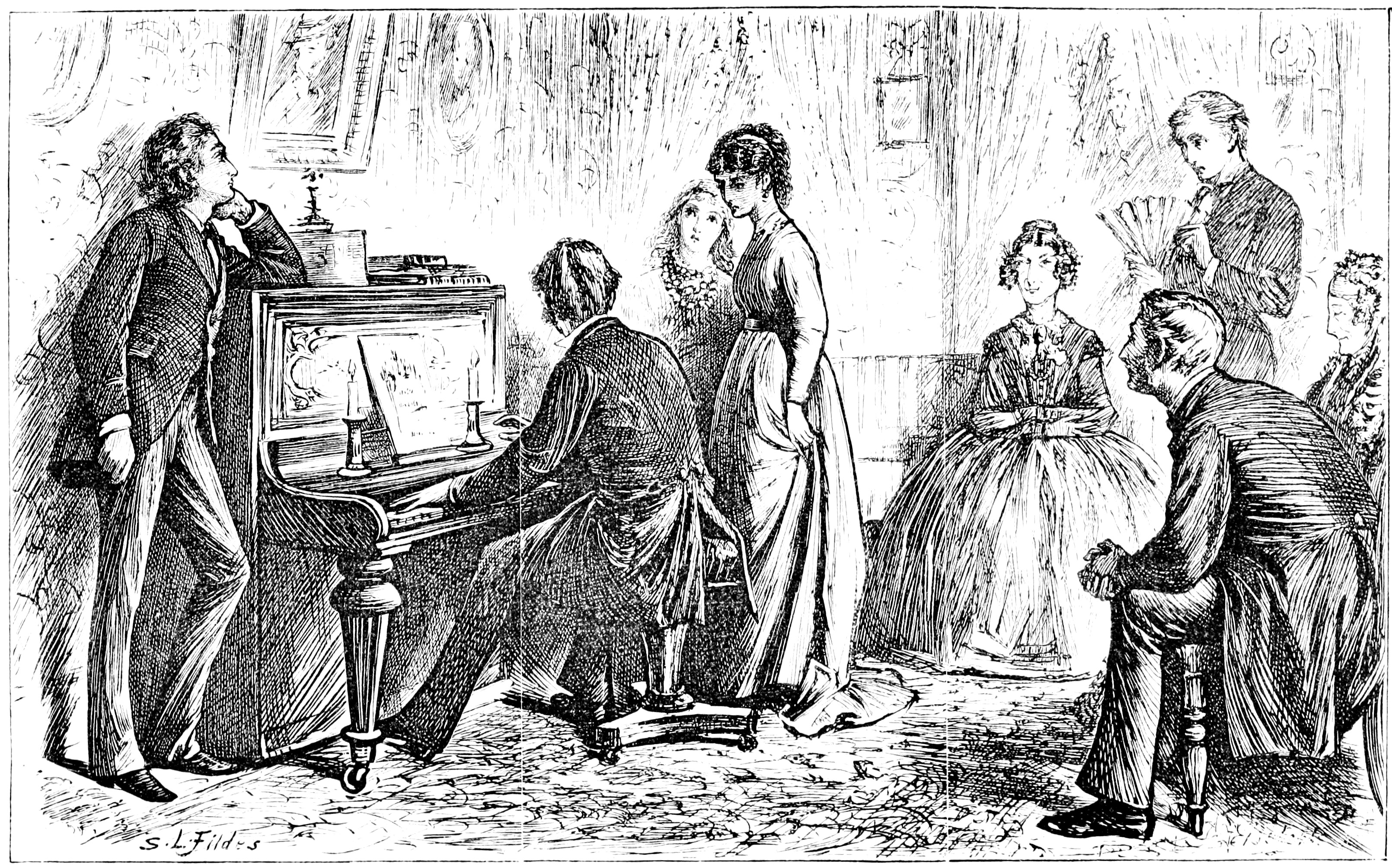 Illustration from the book, The Mystery of Edwin Drood, written by Charles Dickens, illustrated by Luke Fides